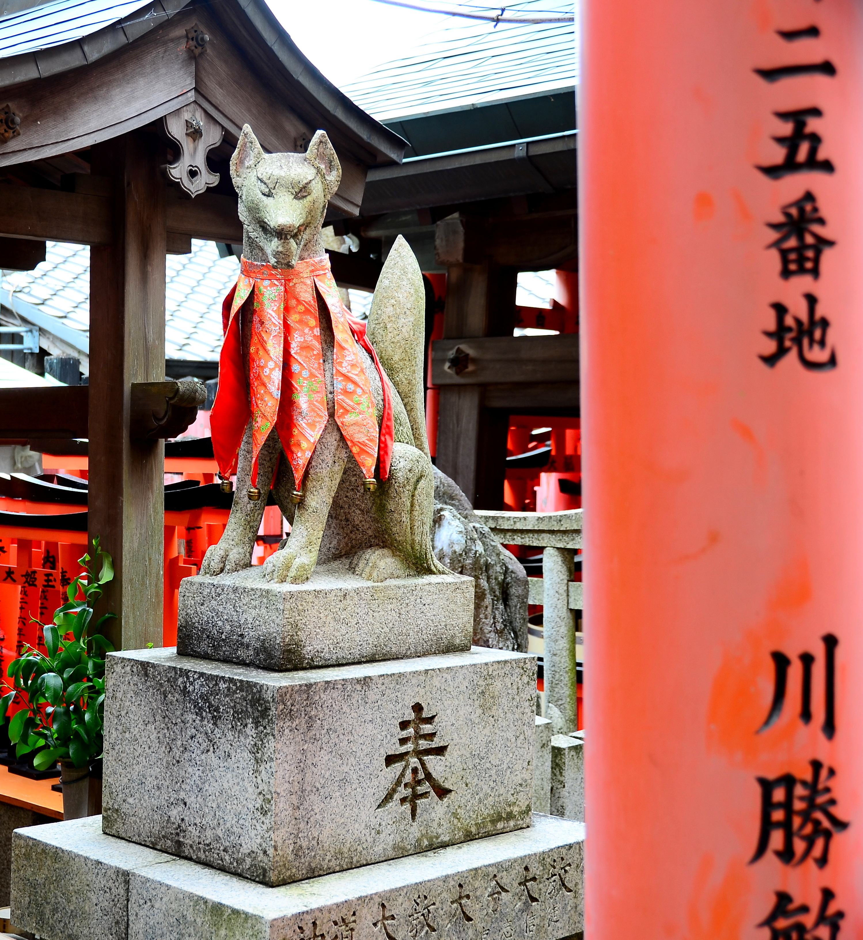 Inari sculpture in Fushimi Inari-taisha shrine near Kyoto